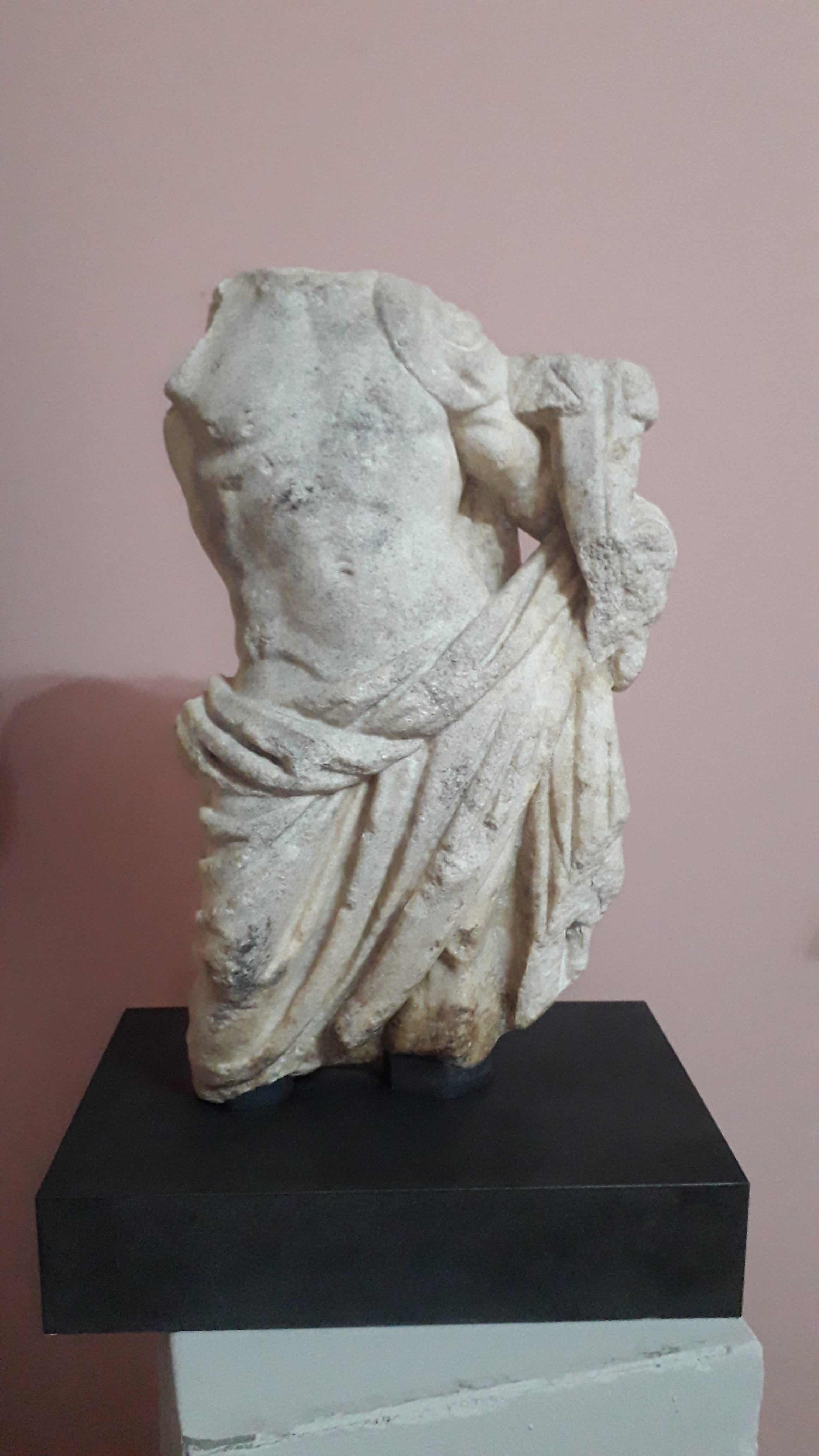 Statue of Apollo from the exhibition in National museum Požarevac, in Serbia